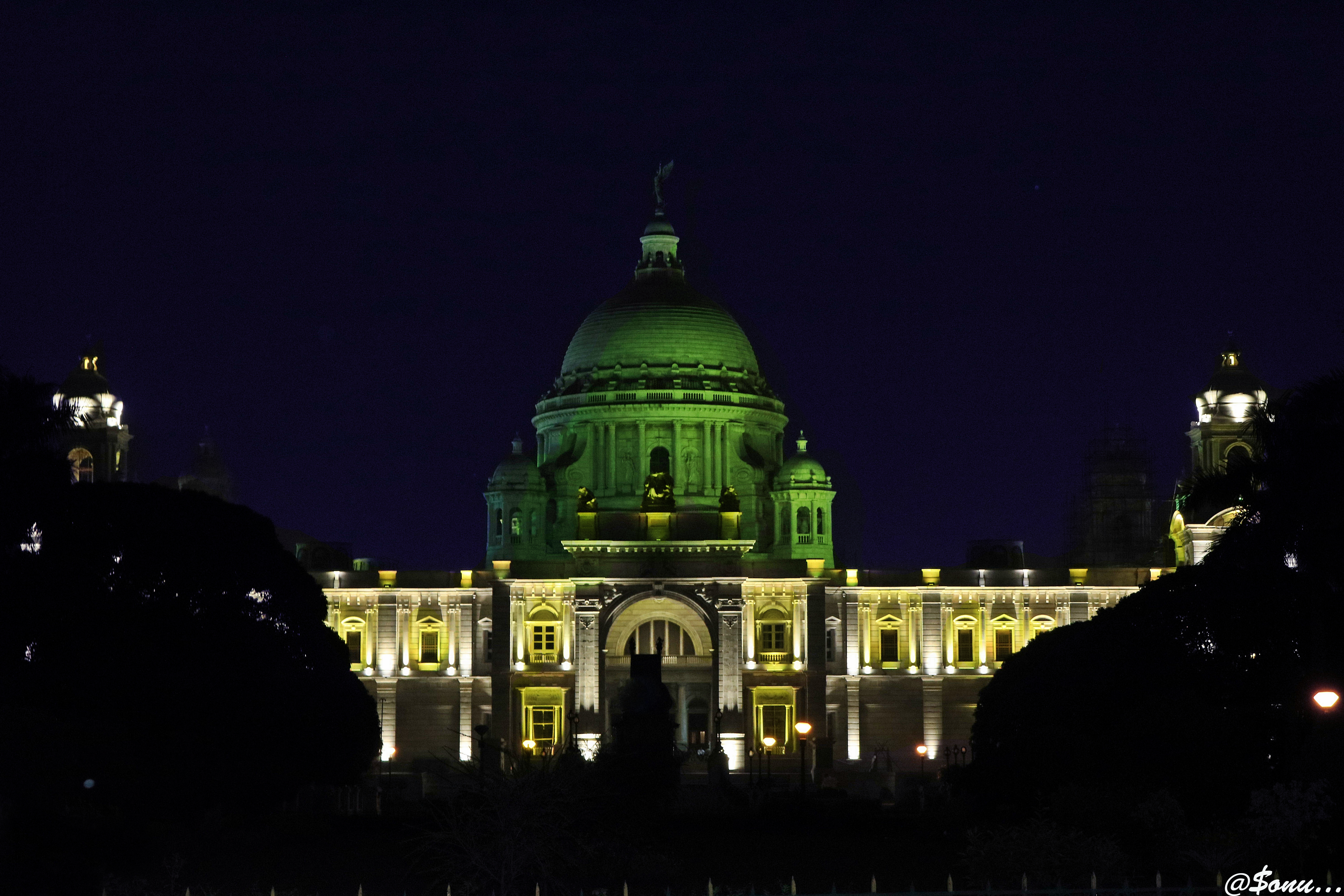 Victoria Memorial at night ...